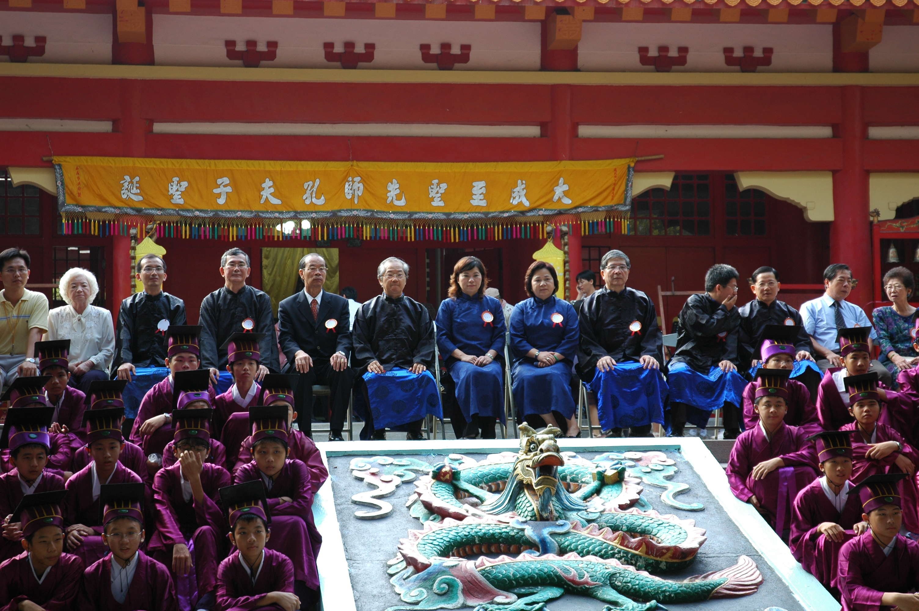 Confucious Temple ceremony 2006, Chia Yi, Taiwan